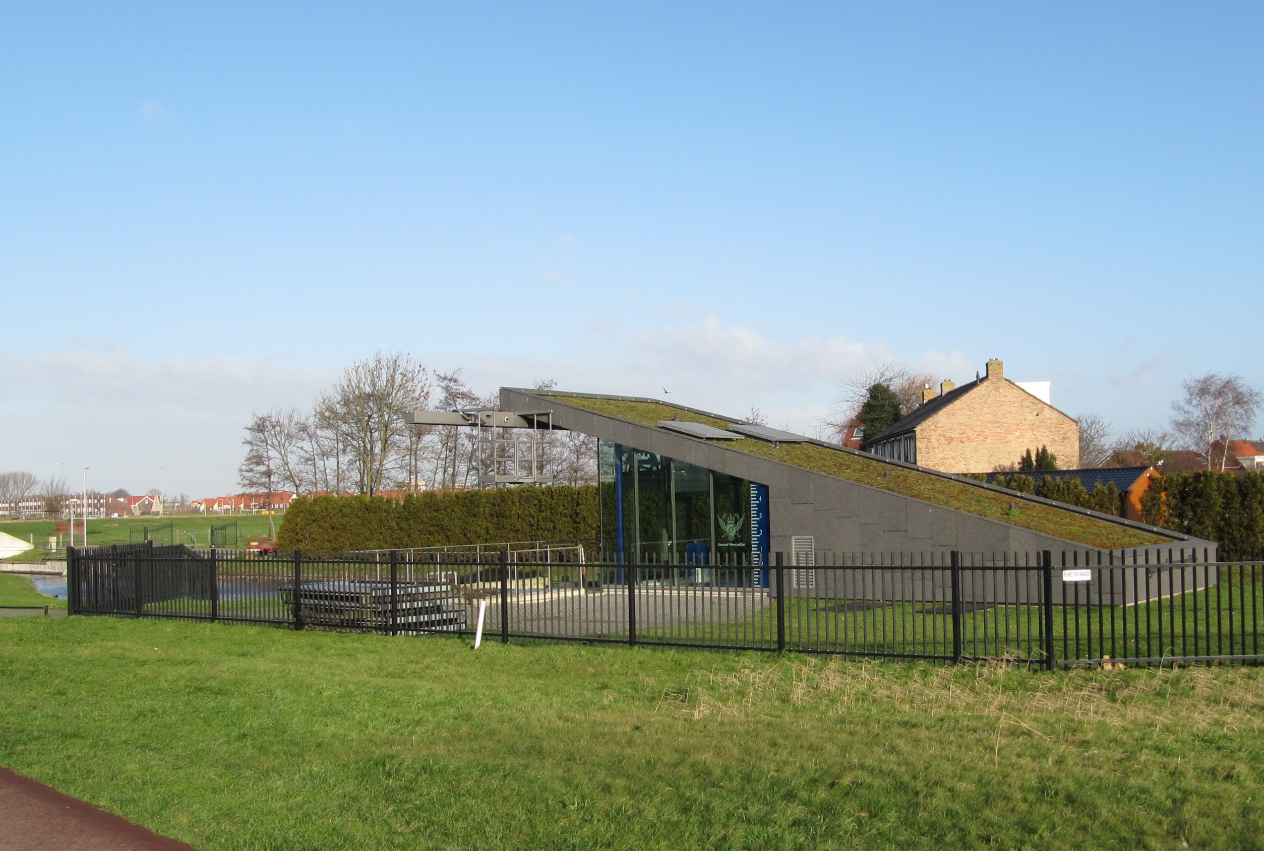 Gemaal Meerpolder